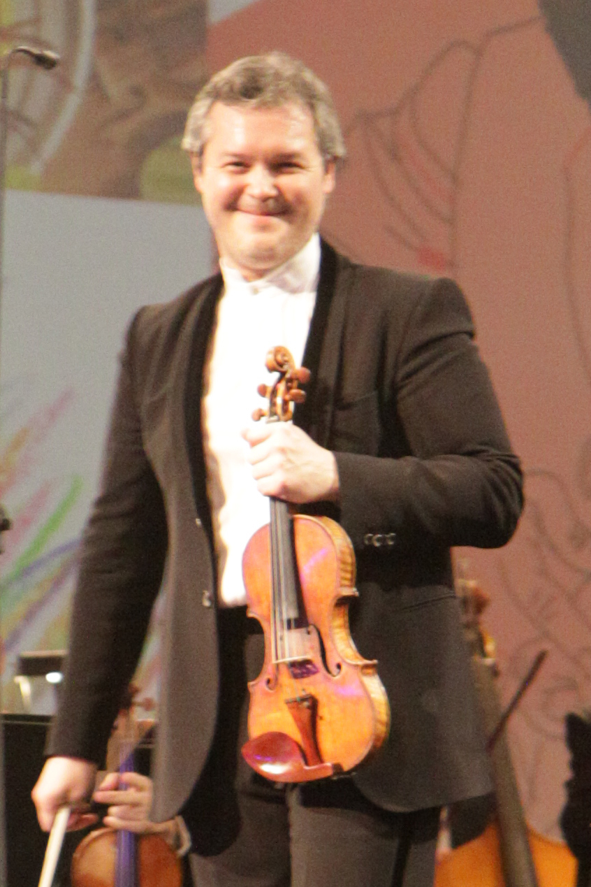 Vadim Repin. Concert with Israel Philharmonic Orchestra. Tel Aviv, 24-12-2011